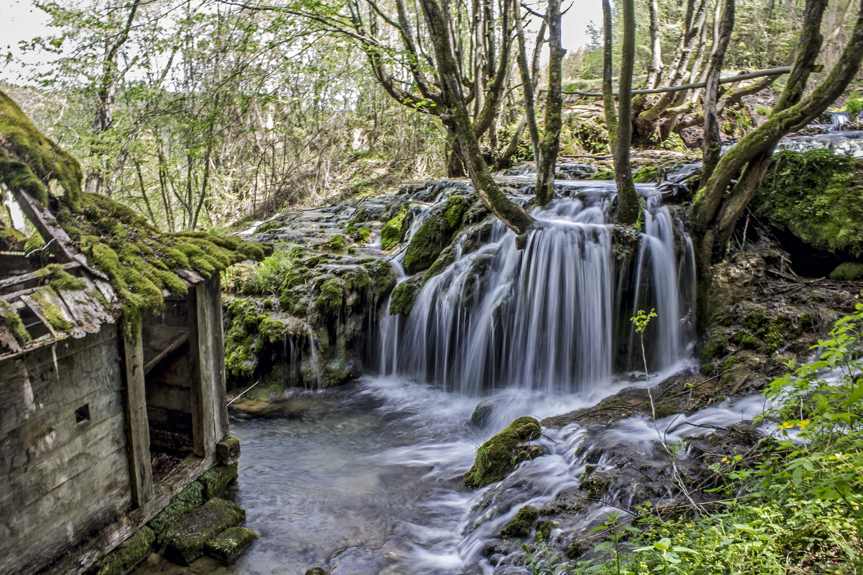 Споменик природе Таорска врела Ово је фотографија заштићеног природног добра у Србији под шифром: СП232 This is a a photo of a natural area in Serbia with ID: СП232